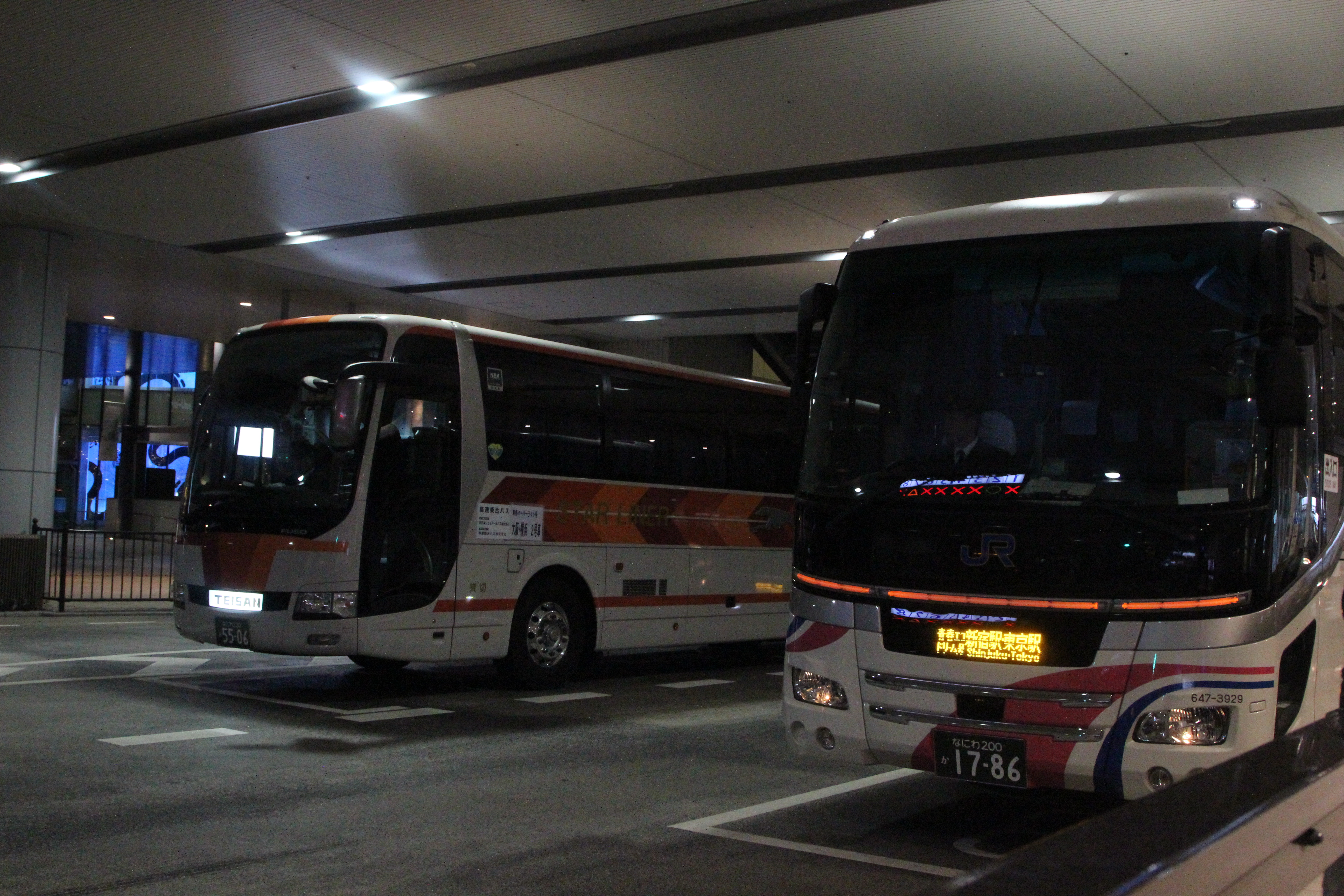 Nisihinihon JR BUS 647-3926 Seisyun Haba-rigiht Machida Yokohama Teisankankou Bus No.2 5506